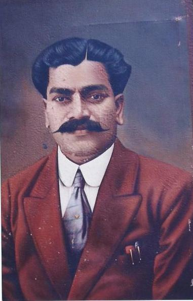 Nandikolla Gopala Rao (Telugu: గోపాల రావు) was an Indian painter of Andhra Pradesh and is known as the Father of Modern Contemporary Art in Andhra Pradesh. He was a painter during British rule in south India, who achieved recognition for his paintings on Hindu epics, landscapes, portraits of maharajahs and maharanis of his days. His innovations in the field of painting influenced the course of Indian art for many more years to come after his death.